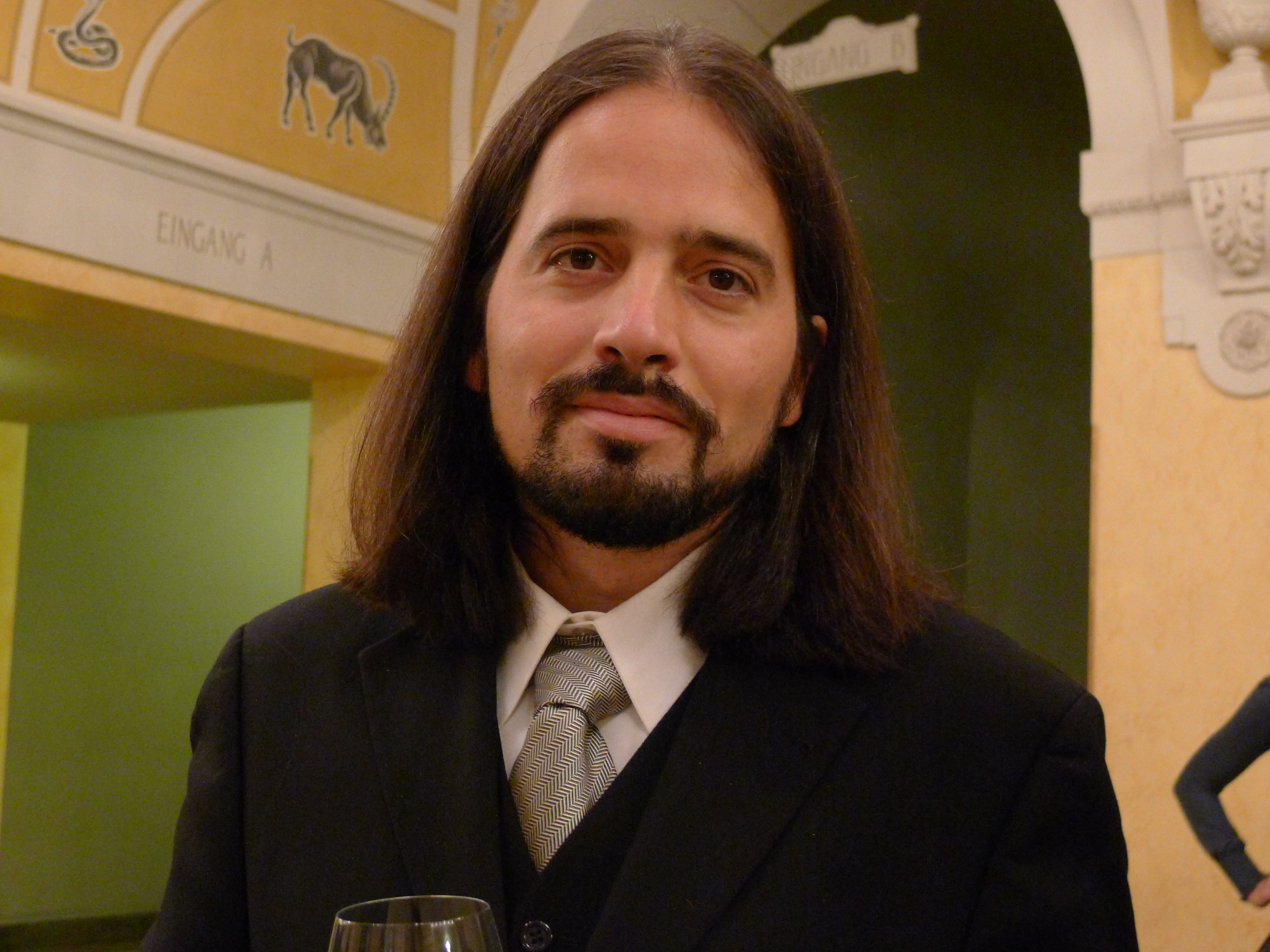 Nikolai Vogel. The fotos was taken in the Theater "Prinzregenten" in celebration of the Bavarian literary Prize 2011 (Jean-Paul-Award)